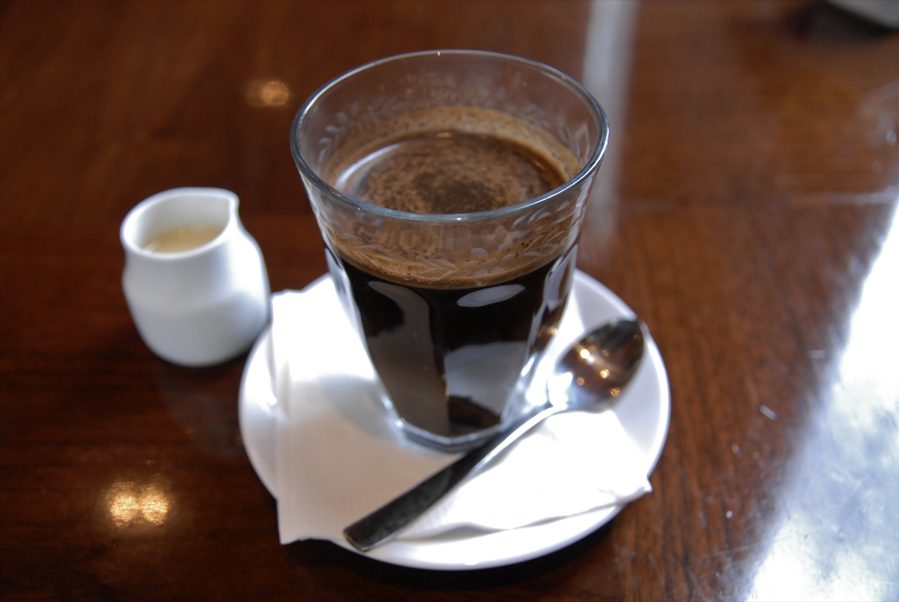 Kopi Tubruk